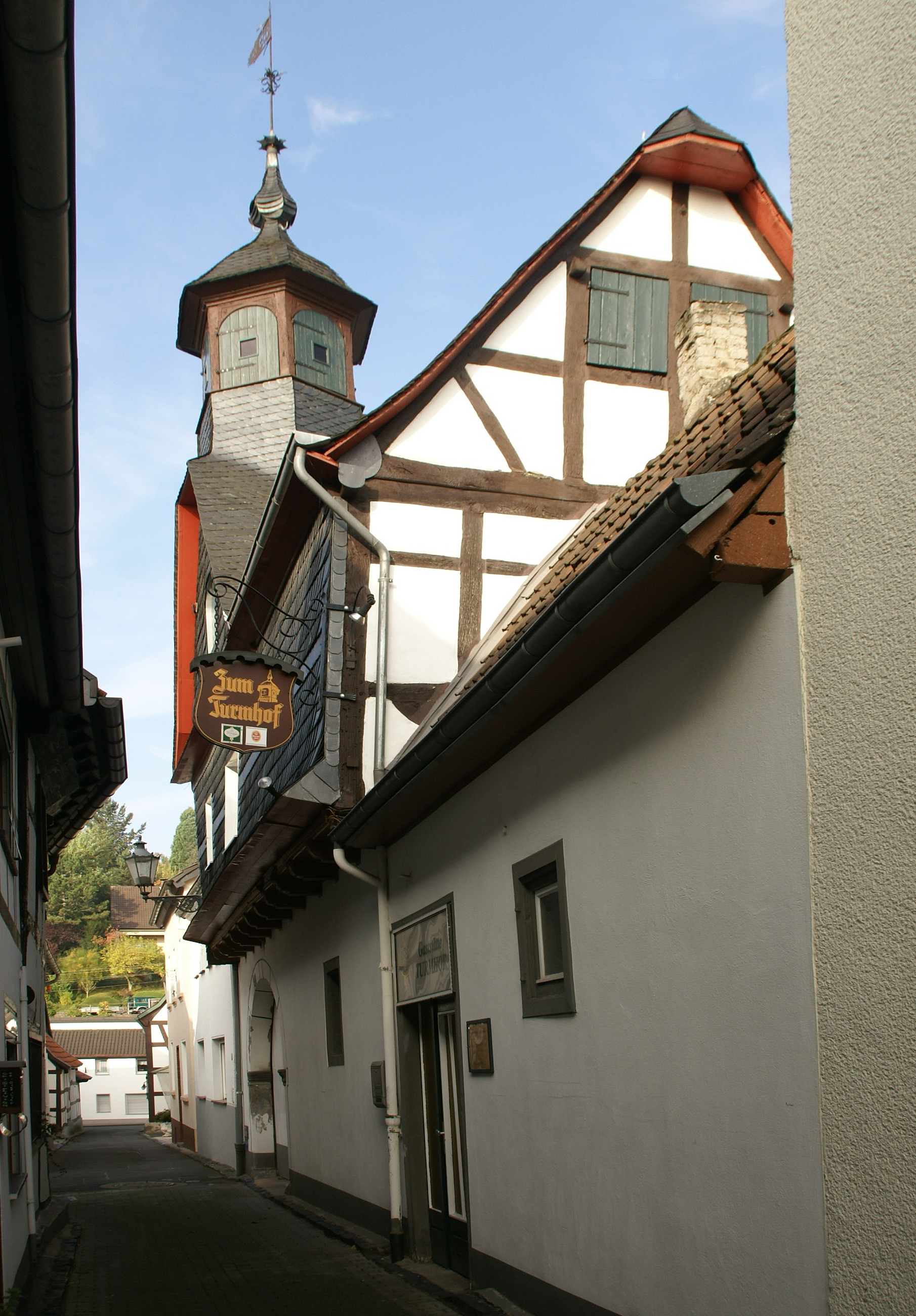 Oberdollendorf: view into the narrow Turmstraße with the Turmhof on the right side